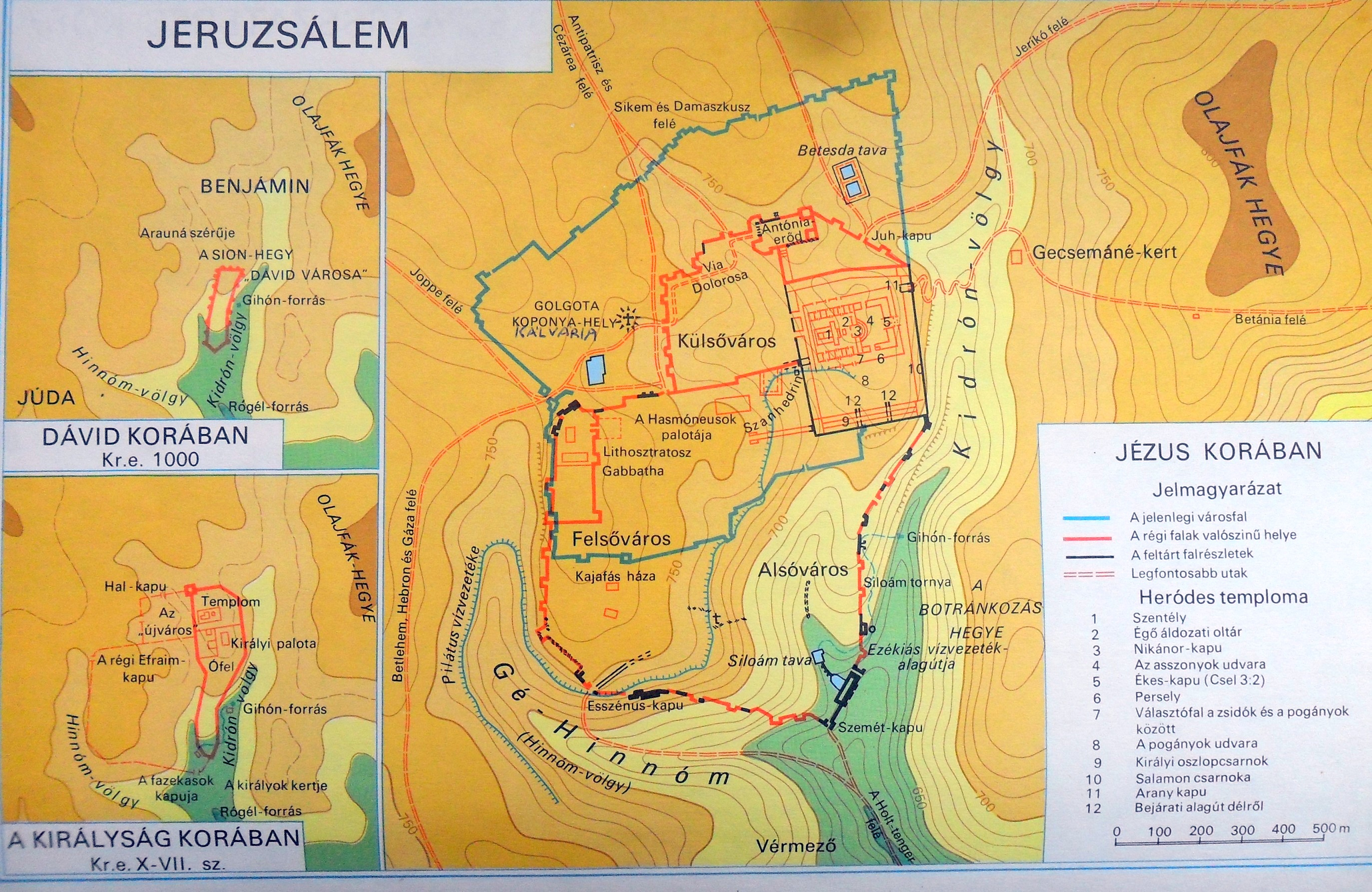 Map of Jerusalem at the time of Jesus